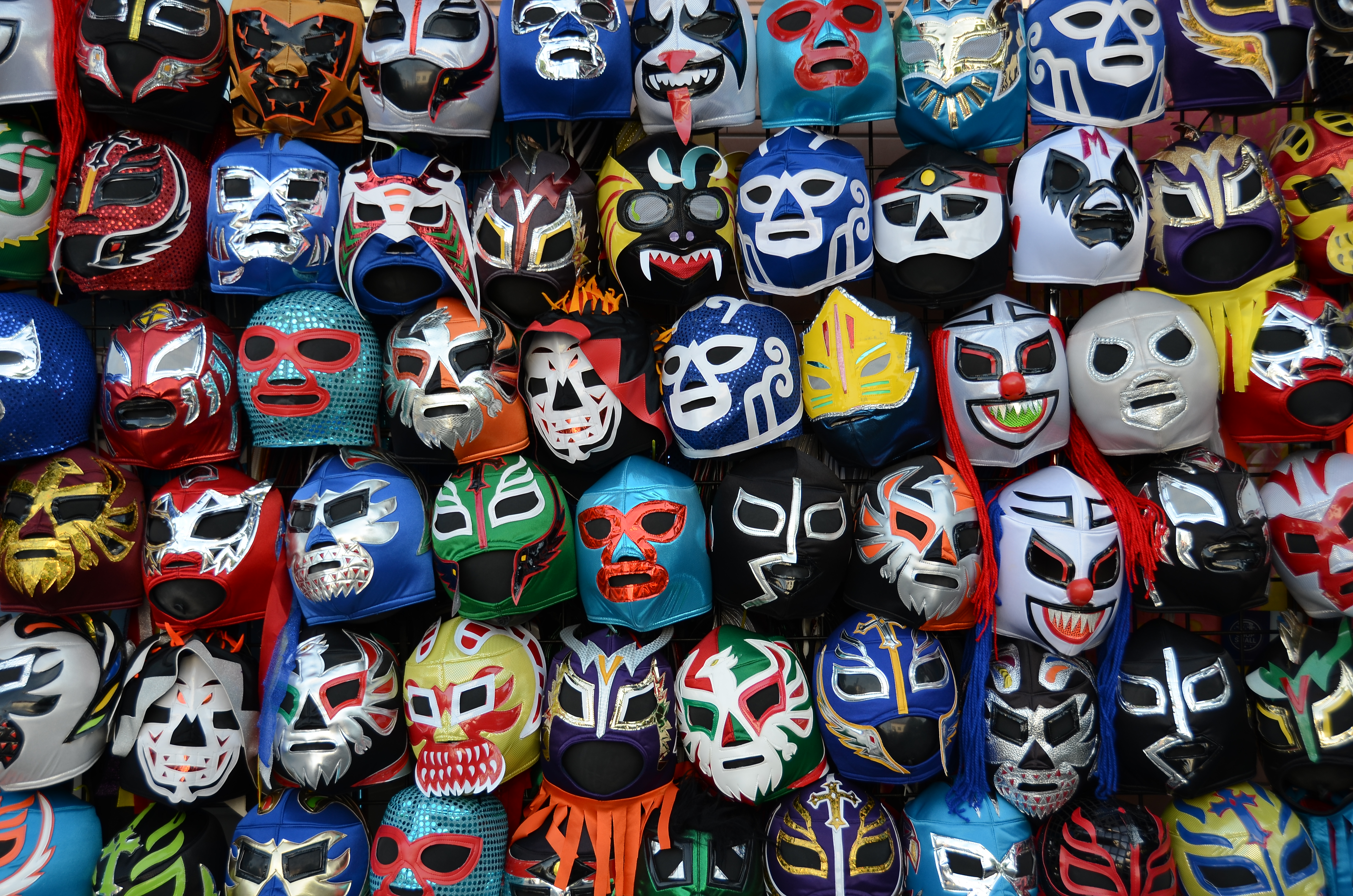 Lucha libre máscaras (mexican wrestling masks) found in the Mission District of San Francisco California in the United States.